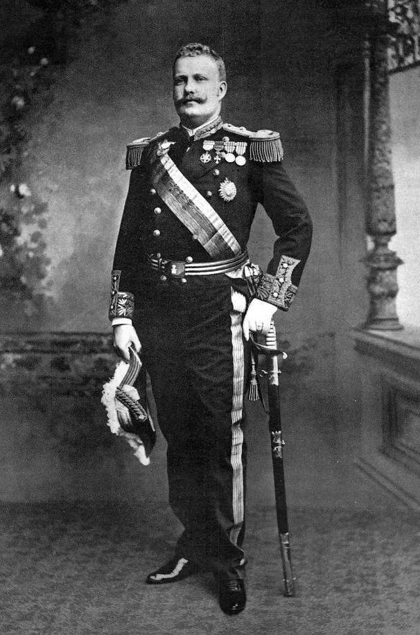 o rei